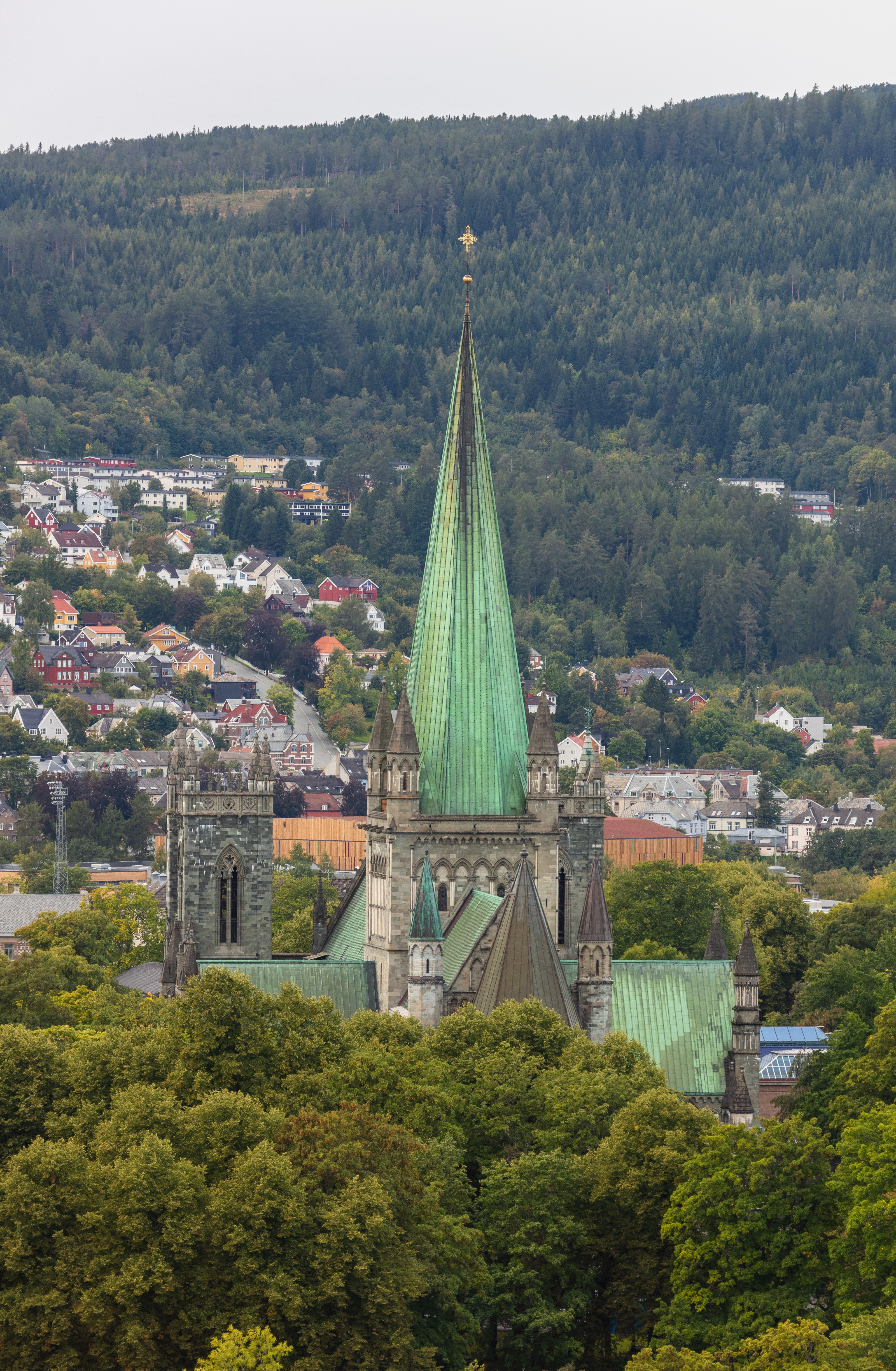 Nidaros Cathedral, Trondheim, Norway